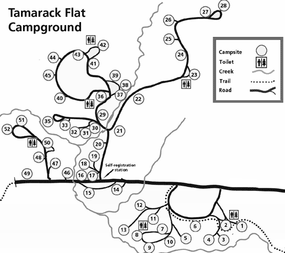 Map of Tamarack Flat Campground, Yosemite National Park